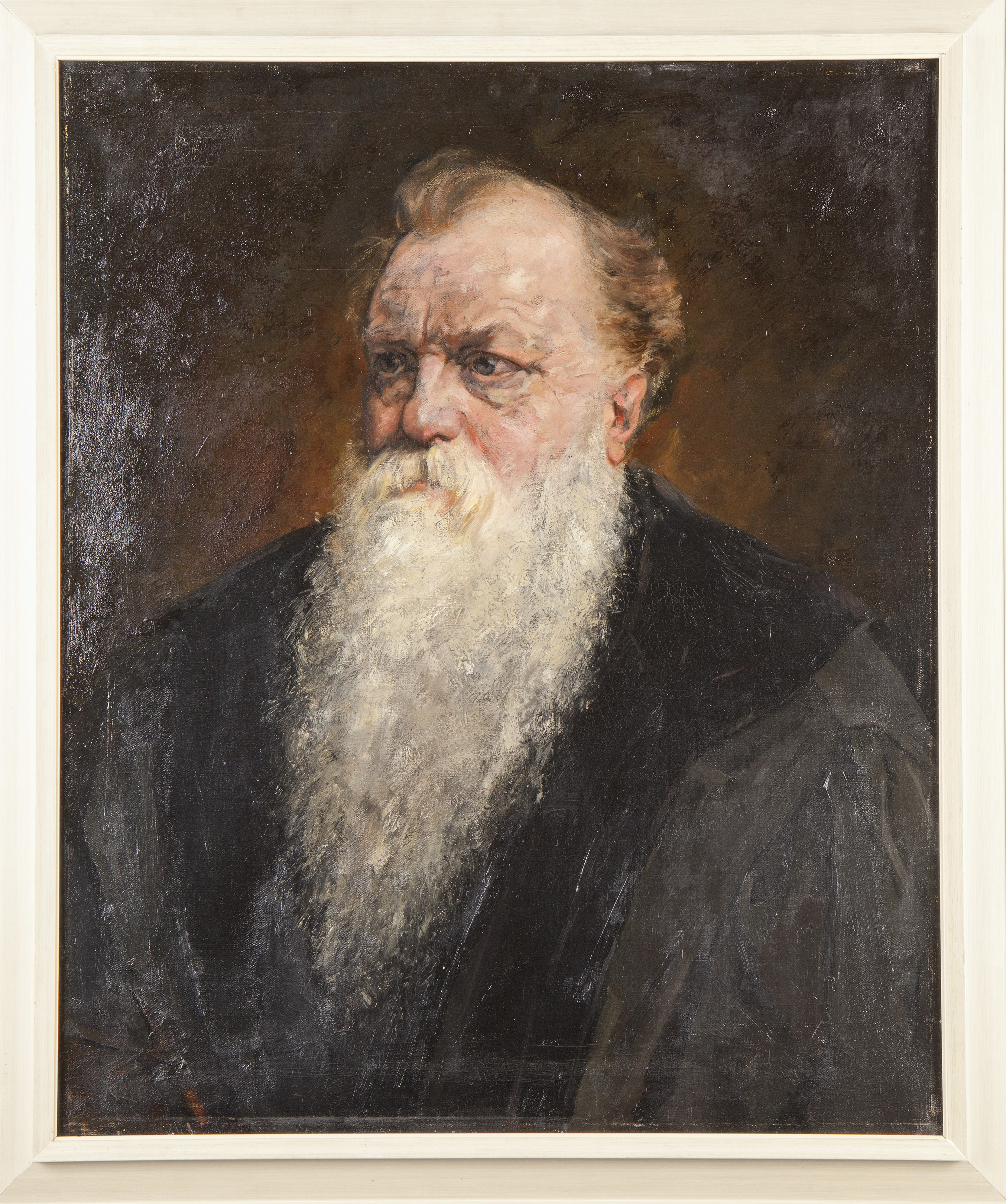 Teunis Zaayer (1837-1902), professor of anatomy at Leiden University